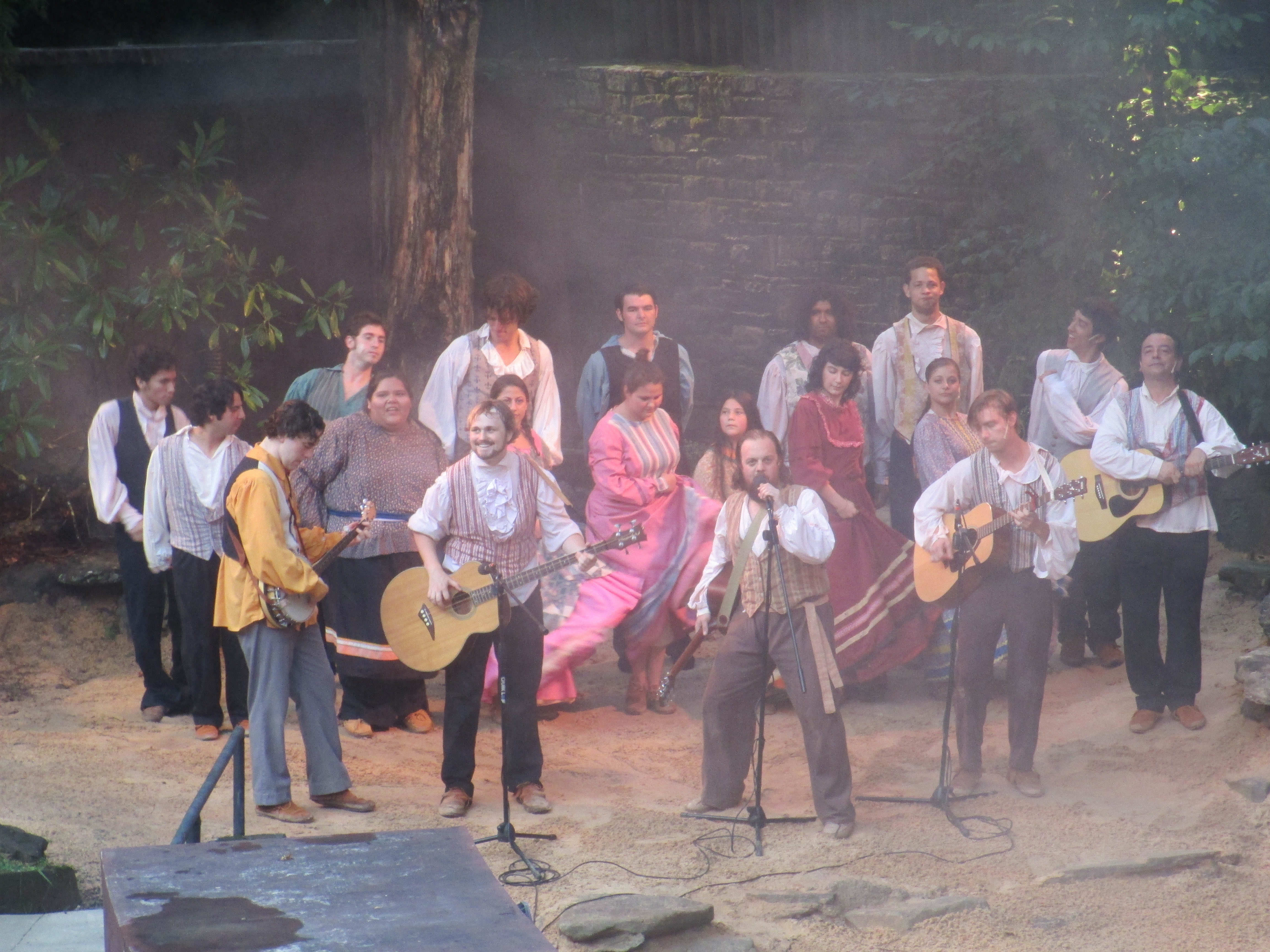 I took photo of cast members at "Unto These Hills" in Cherokee, NC, with Canon camera.